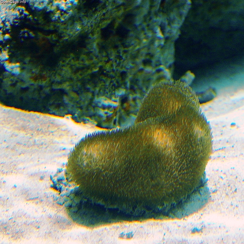 Polyphyllia Talpina, Acuario Churaumi, Okinawa, Japón